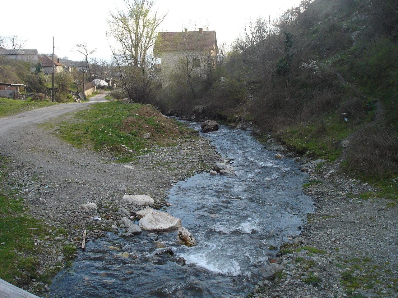 Ljubanci river, Macedonia